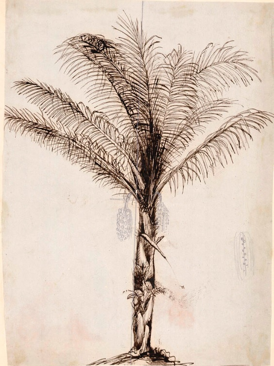 "Illustration of a sugar palm (family Arecaceae) observed on Sulawesi (then Celebes), Indonesia, by the British naturalist Alfred Russel Wallace (1823-1913)" - Arenga pinnata